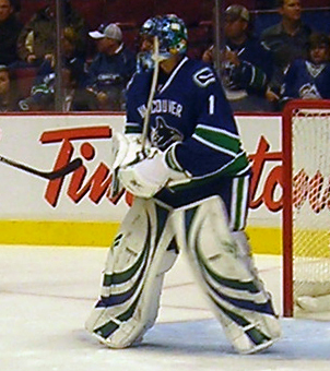 Vancouver Canucks goaltender Roberto Luongo in a pre-game warmup against the Boston Bruins on October 28, 2008.